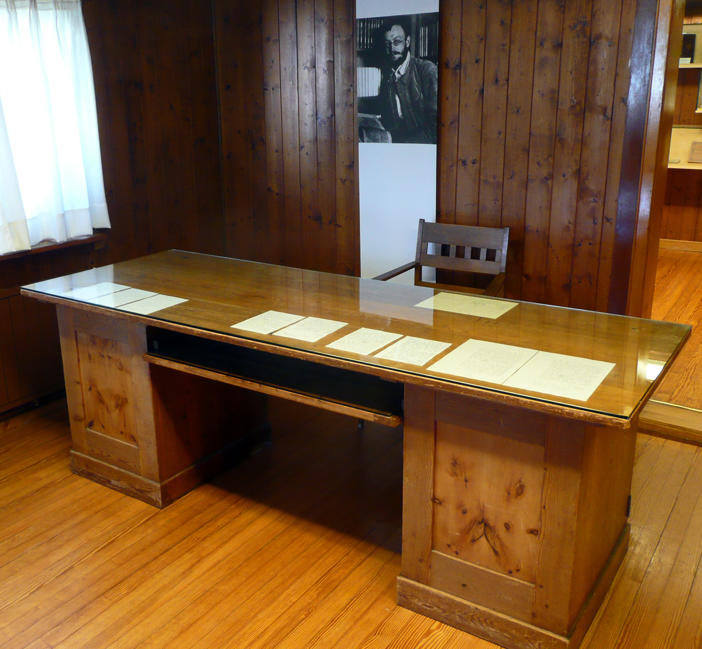 Desk of Hermann Hesse which he used in Gaienhofen, Bern and Montagnola. Today it's in the Hermann-Hesse-Haus (1904-1907) in Gaienhofen.